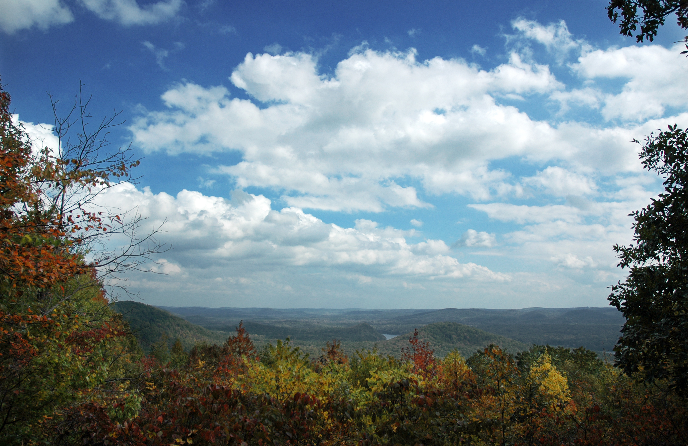 Taken at Morrow Mountain State Park by User:Hathcock in October 2006.